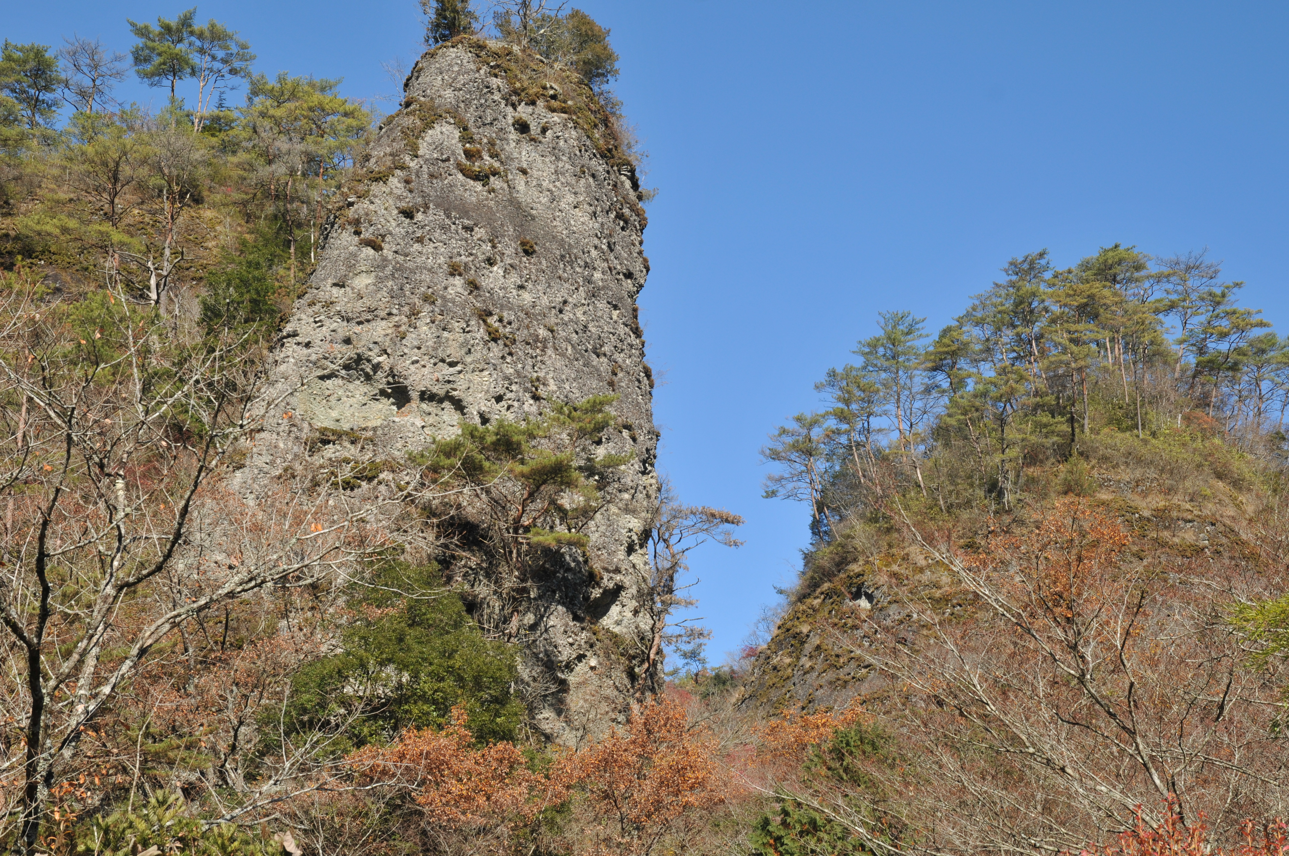 Rocky peaks of Fruiwaya